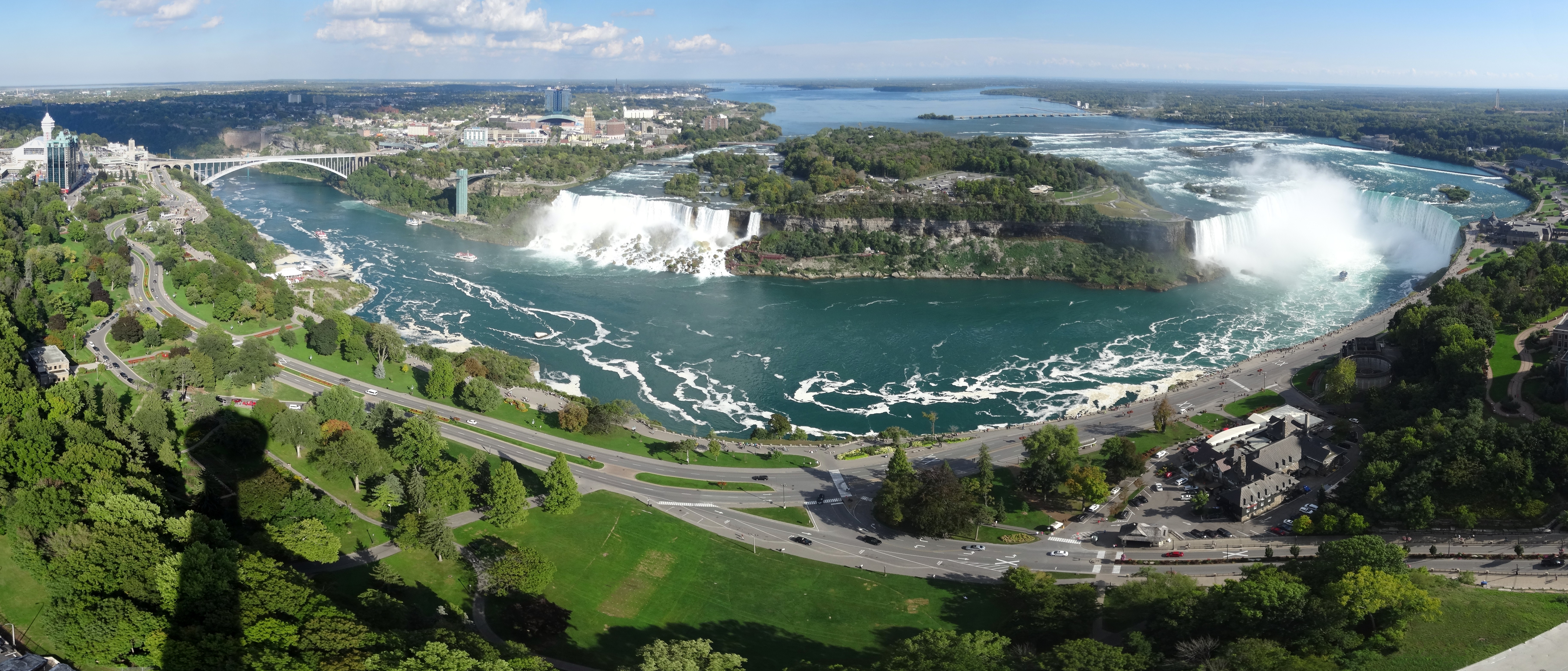 View from the skylon tower to the Niagara Falls